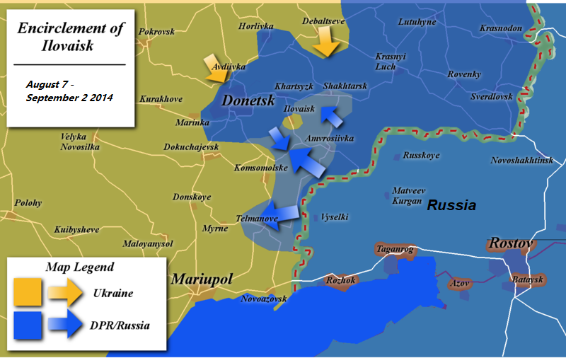 Simple map depicting the battle of Ilovaisk in Ukraine 2014. Influenced by maps from